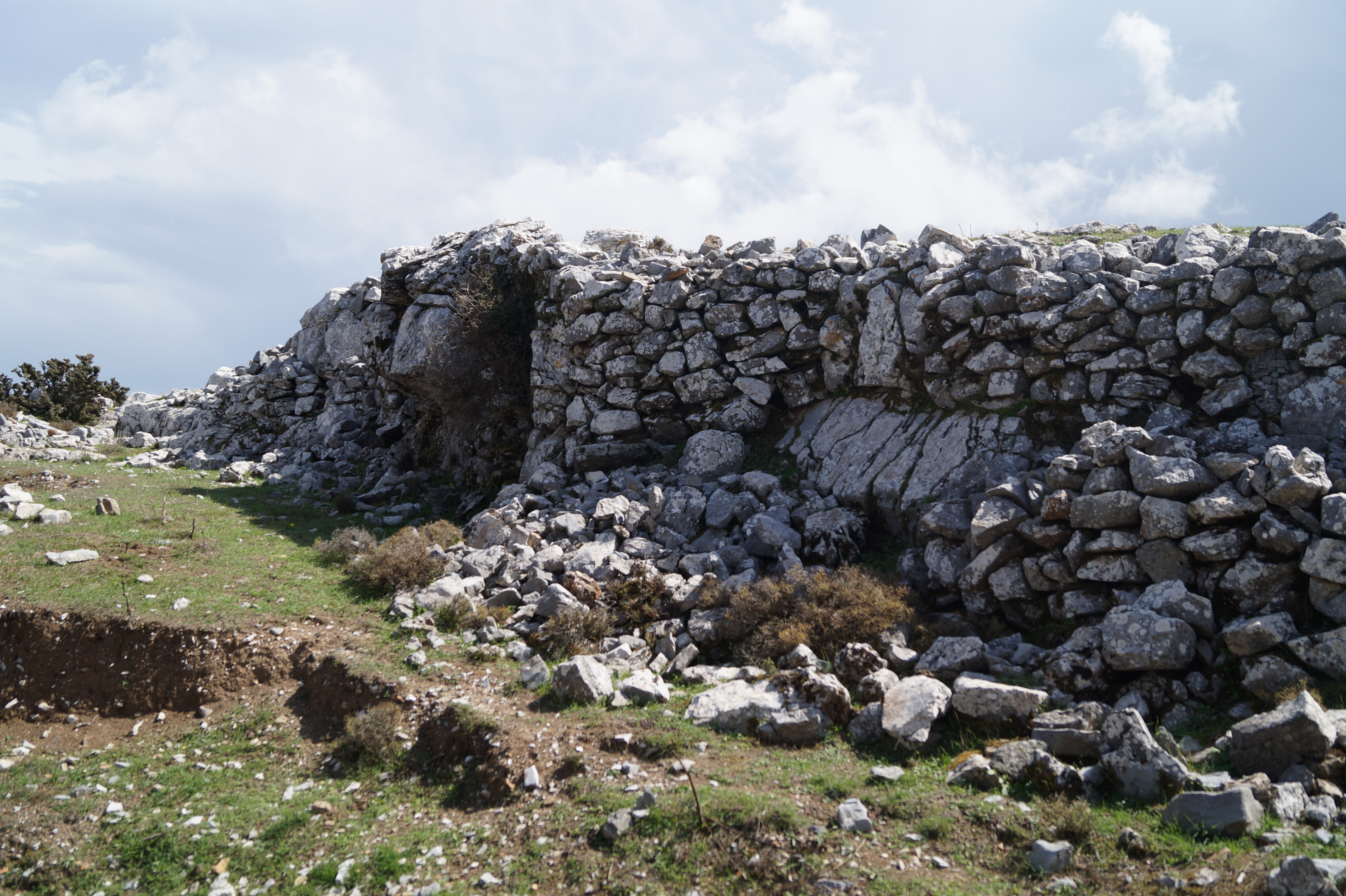 Lasithi, Crete: Walls on the Agios Georgios Papoura.